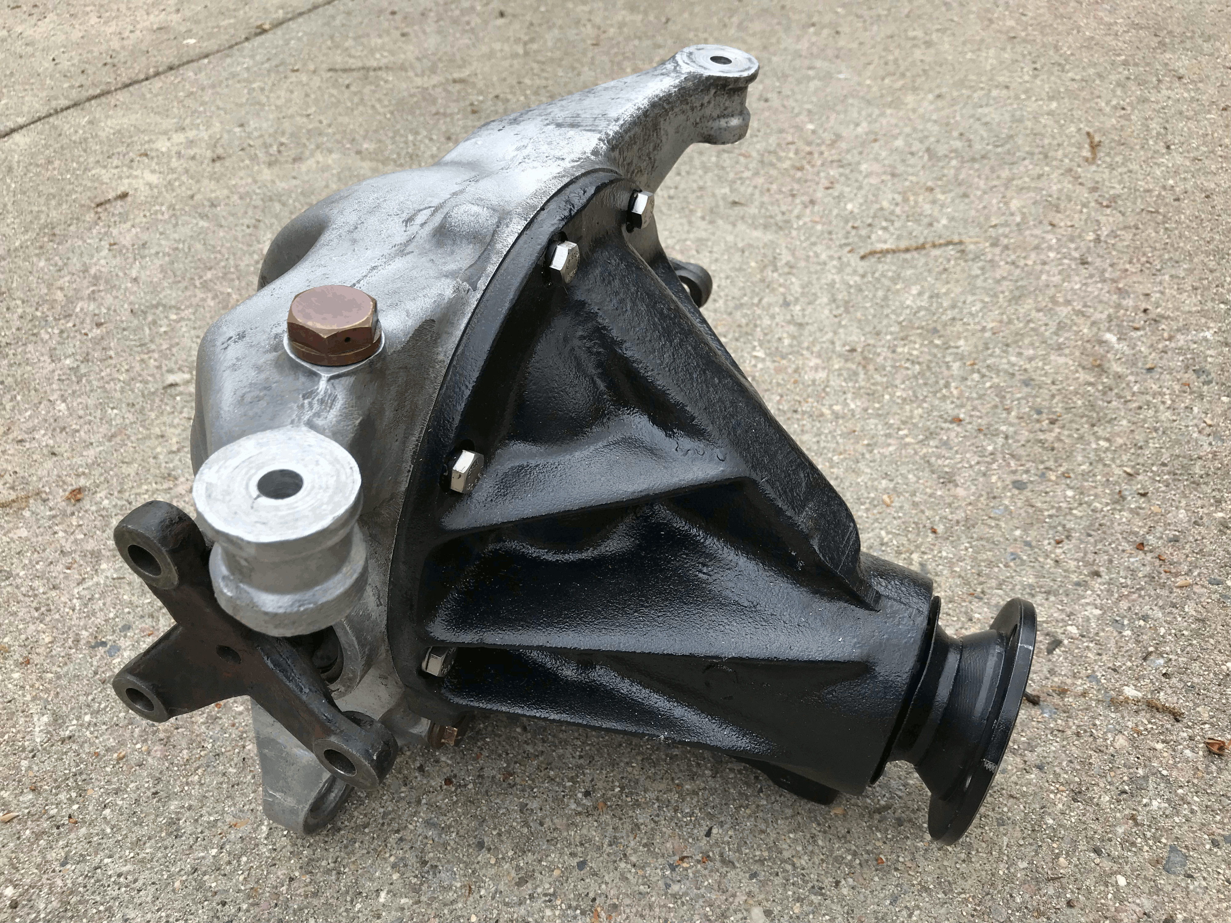 Lotus Elan differential unit. Showing Ford gear case with Lotus rear cover.